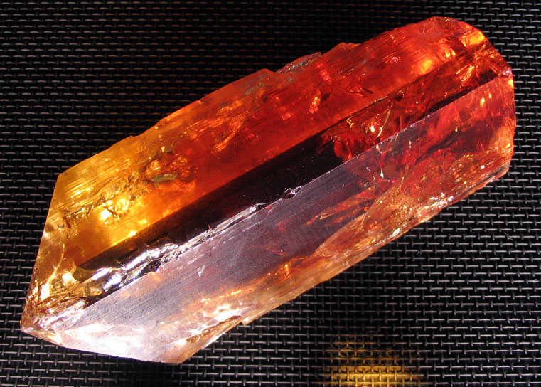 Red topaz crystal. Photograph taken at the Natural History Museum, London.